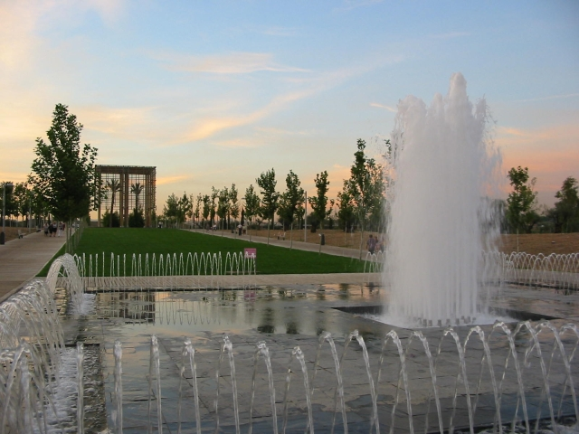 The Umbraculo in Manzanares Park, Madrid. Author, myself.